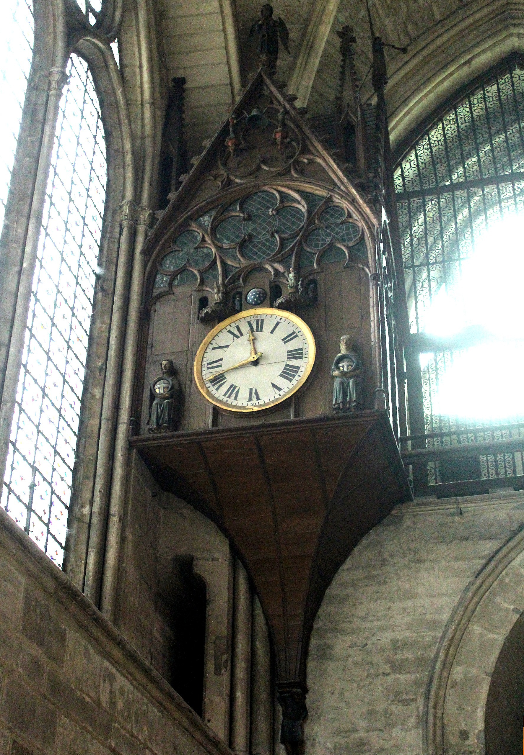 Reims, cathedral, the astronomical clock